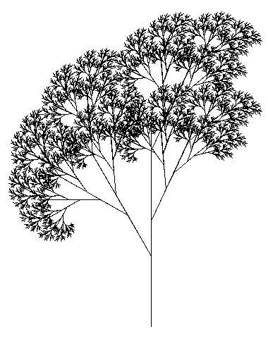 Tree recreated in LOGO programming language using recursion.